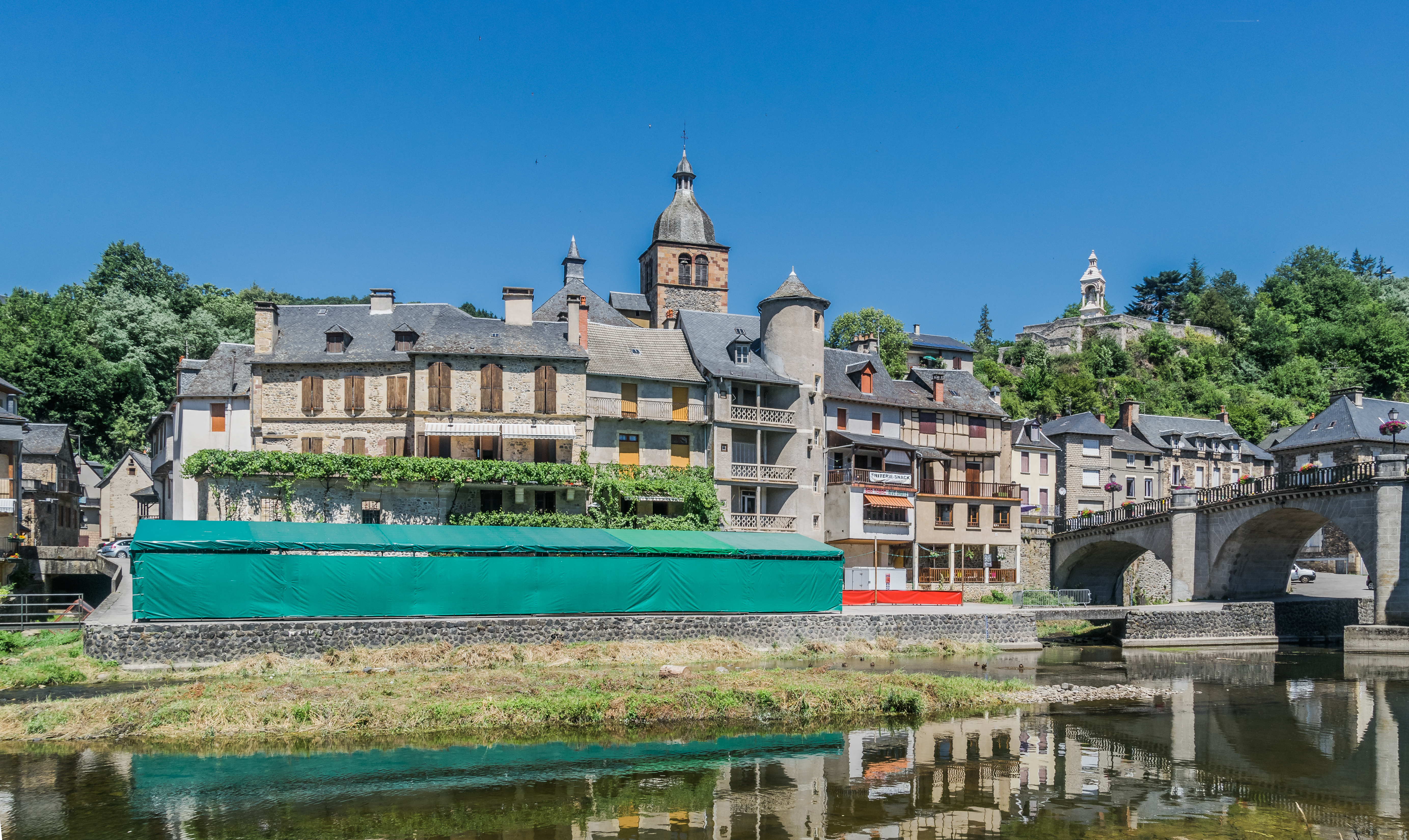 Lot River in Saint-Geniez-d'Olt, Aveyron, France